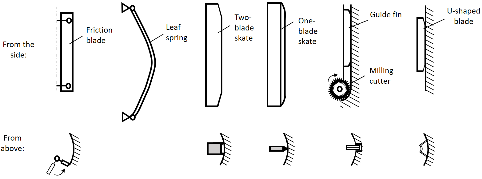 Schematic of five different anti-torque devices for use in ice drilling. Redrawn from Talalay, Pavel G.; Fan, Xiaopeng; Zheng, Zhichuan; Xue, Jun; Cao, Pinlu; Zhang, Nan; Wang, Rusheng; Yu, Dahui; Yu, Chengfeng; Zhang, Yunlong; Zhang, Qi; Su, Kai; Zhan, Dongdong; Zhan, Jiewei (2014). "Anti-torque systems of electromechanical cable-suspended drills and test results". Annals of Glaciology. 55 (68): p. 208.